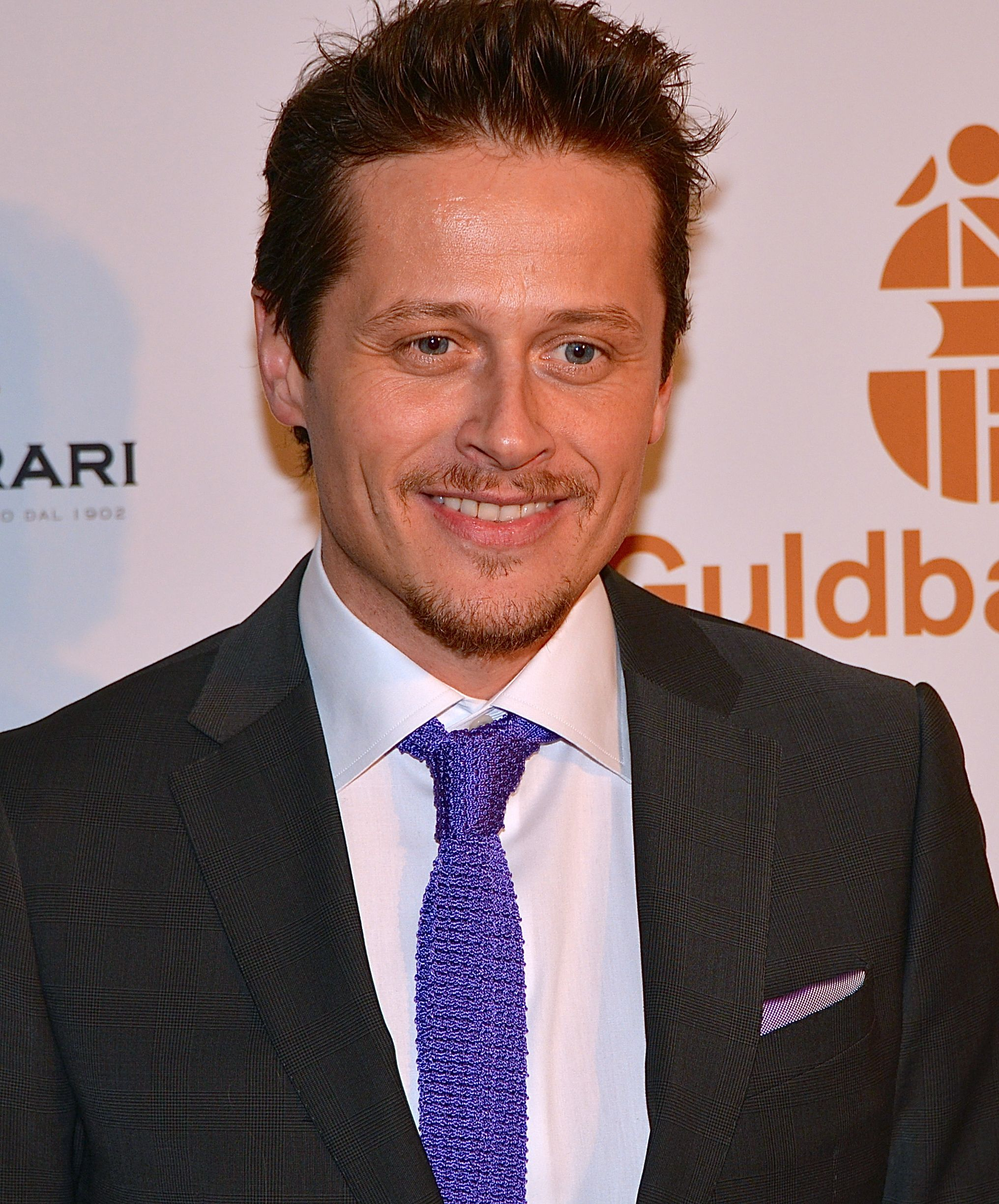 Roman Knizka on Guldbaggegalan January 21, 2013 at Cirkus in Stockholm.